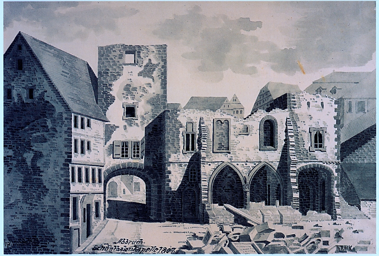 Schwäbisch Hall, Haus von der Stetten (links) Stätt-Tor (Mitte) und Marienkapelle vom Kloster Schöntal (auch Schöntaler Kapelle), Am Säumarkt 12 (heute Württembergisches Wachhaus), Abbruch im Jahre 1807.jpg